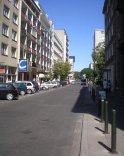 a